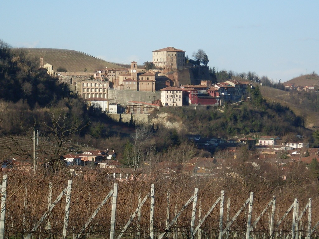 View of Castellinaldo (Cn) Italy